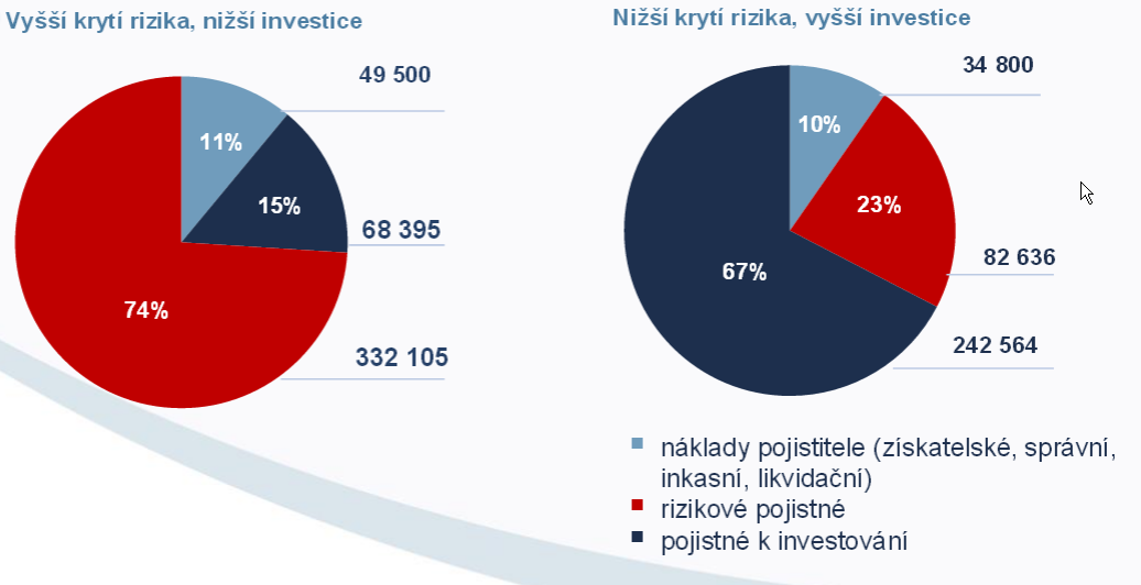 Layout of your investment in life-investement insurance